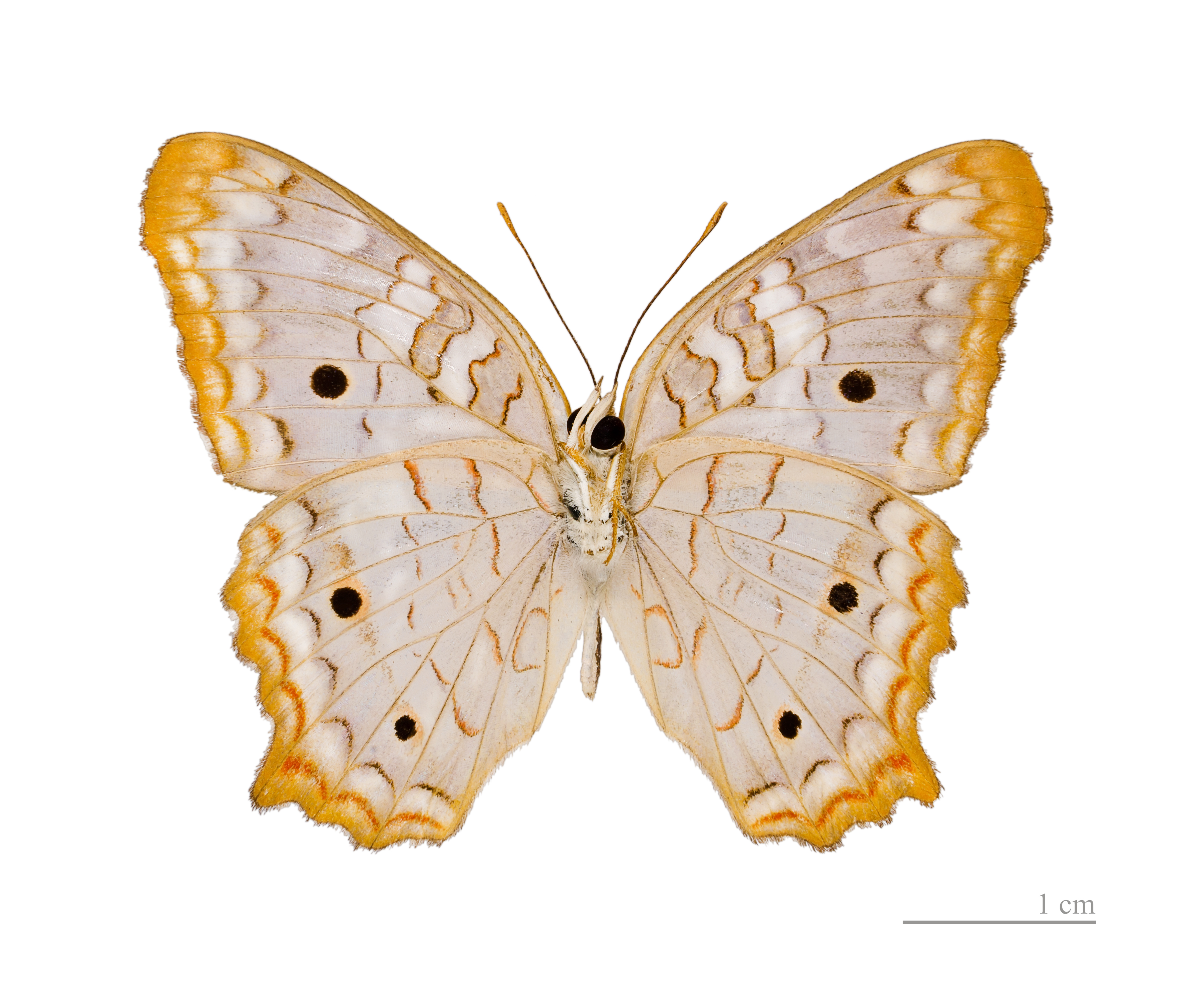 White Peacock ♂ - △ Ventral side Locality : Cacao, Crique Baguot, French Guiana.